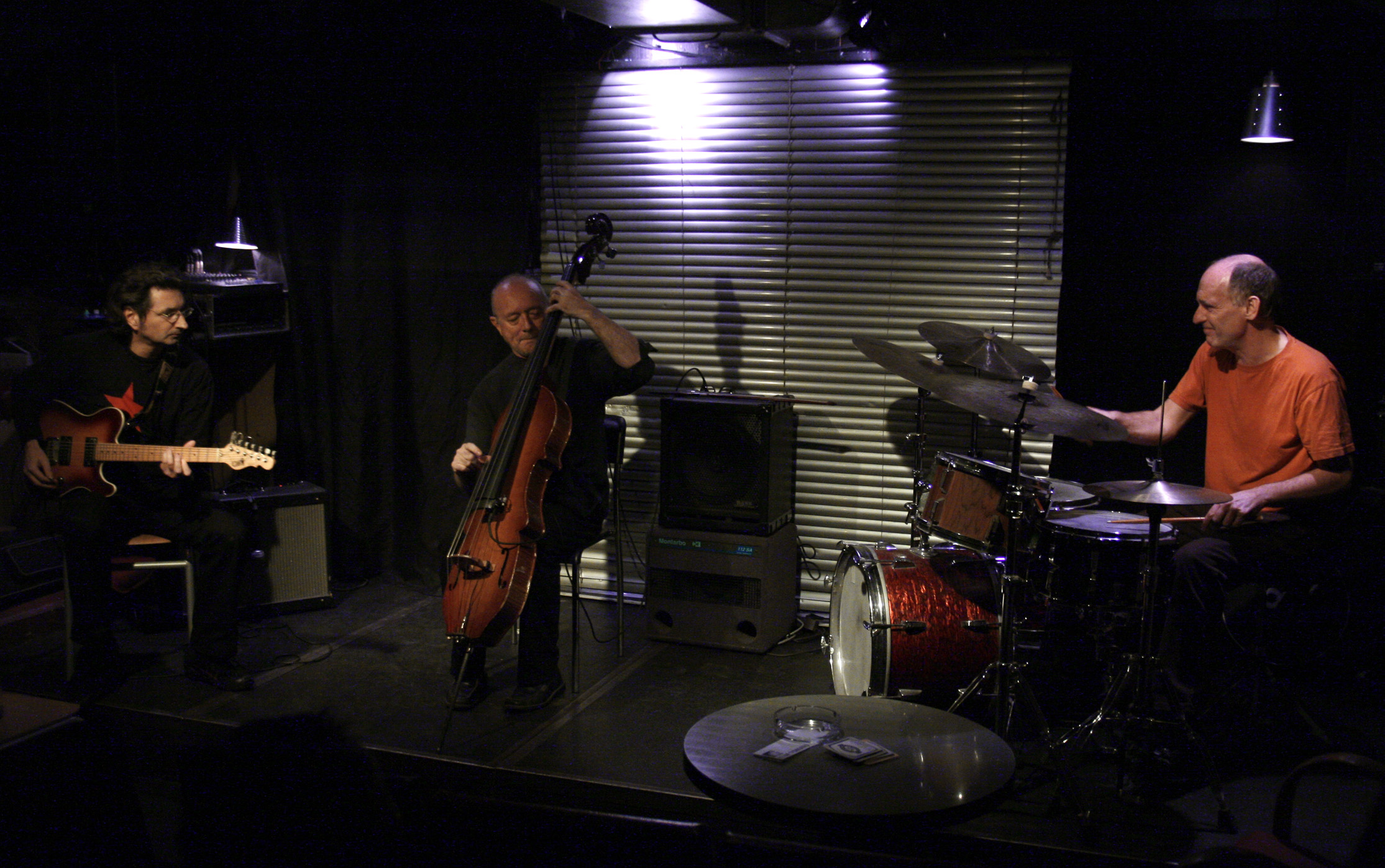 Andy Manndorff (g.), Lisle Ellis (b.) and Wolfgang Reisinger (dr.); session at the Blue Tomato in Vienna (Austria).